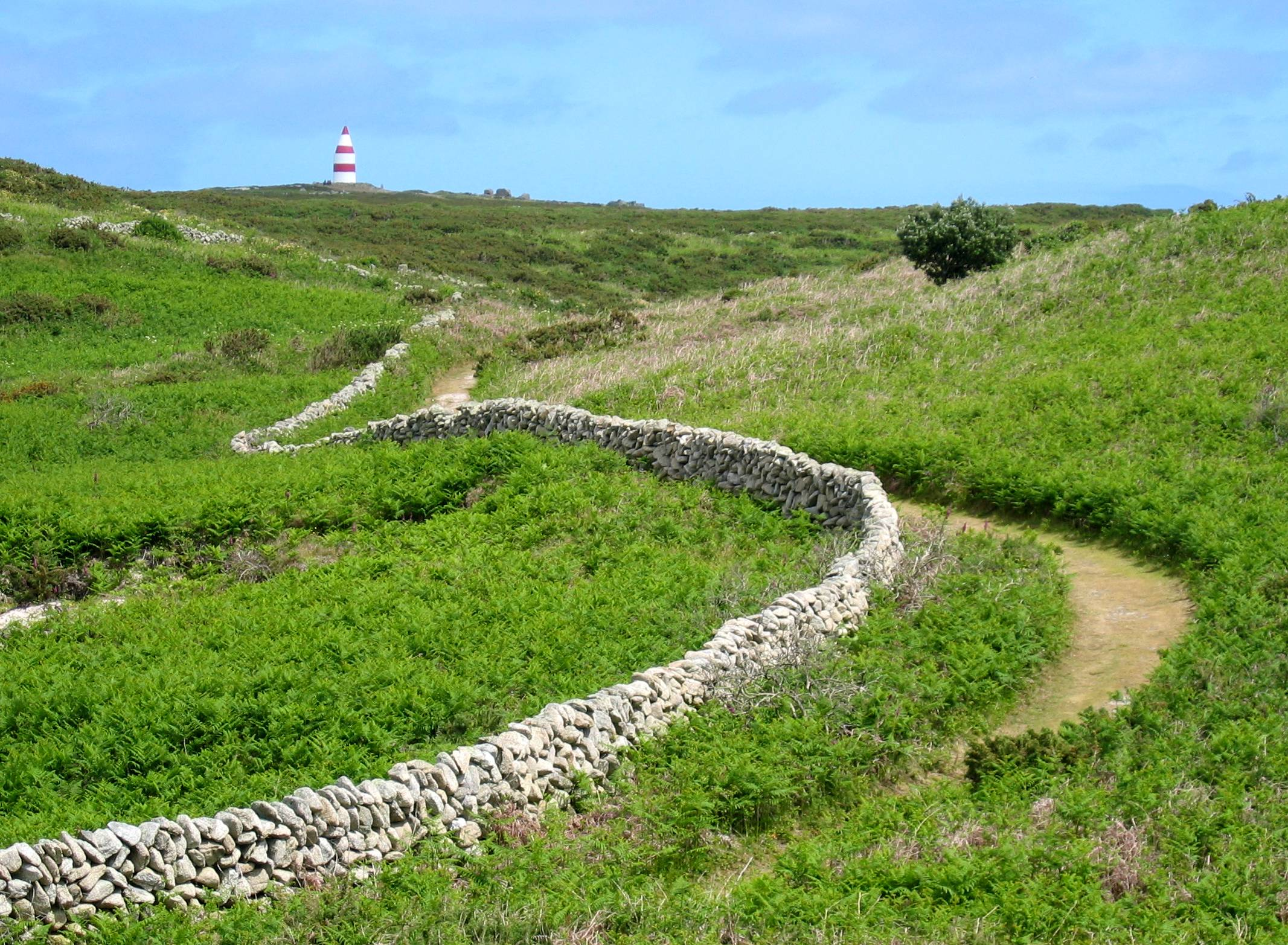 The Daymark is the nearest point to the mainland of Cornwall. St Martins, Isles of Scilly, England.